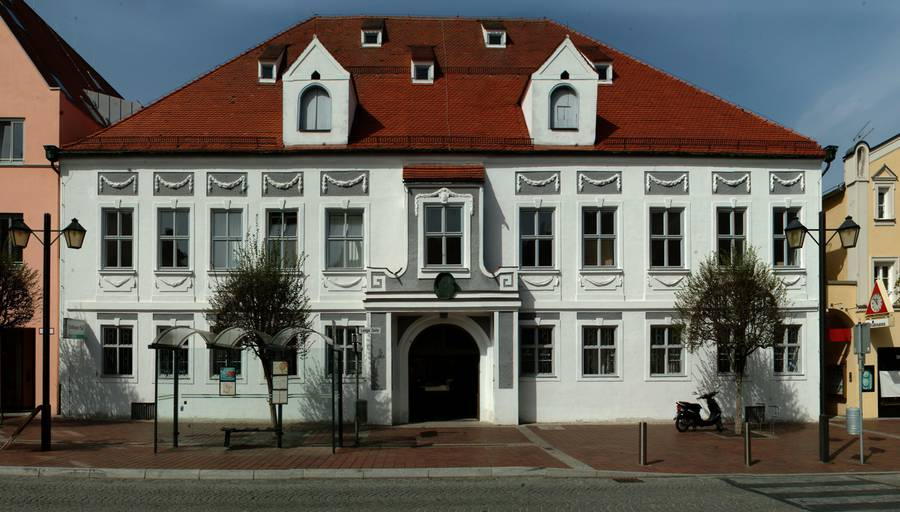 UAM Study Building